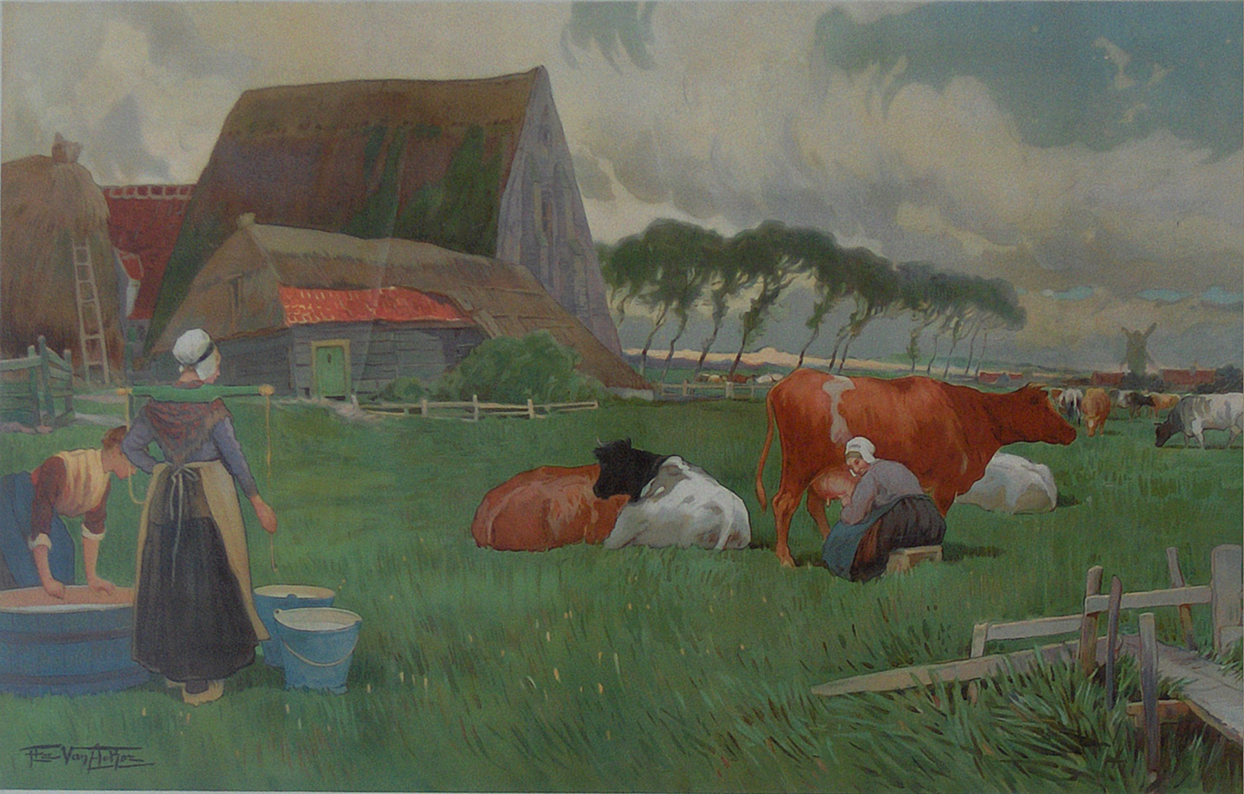 "Veurne Ambacht", chromolithography by Florimond van Acker (1858-1940); private collection